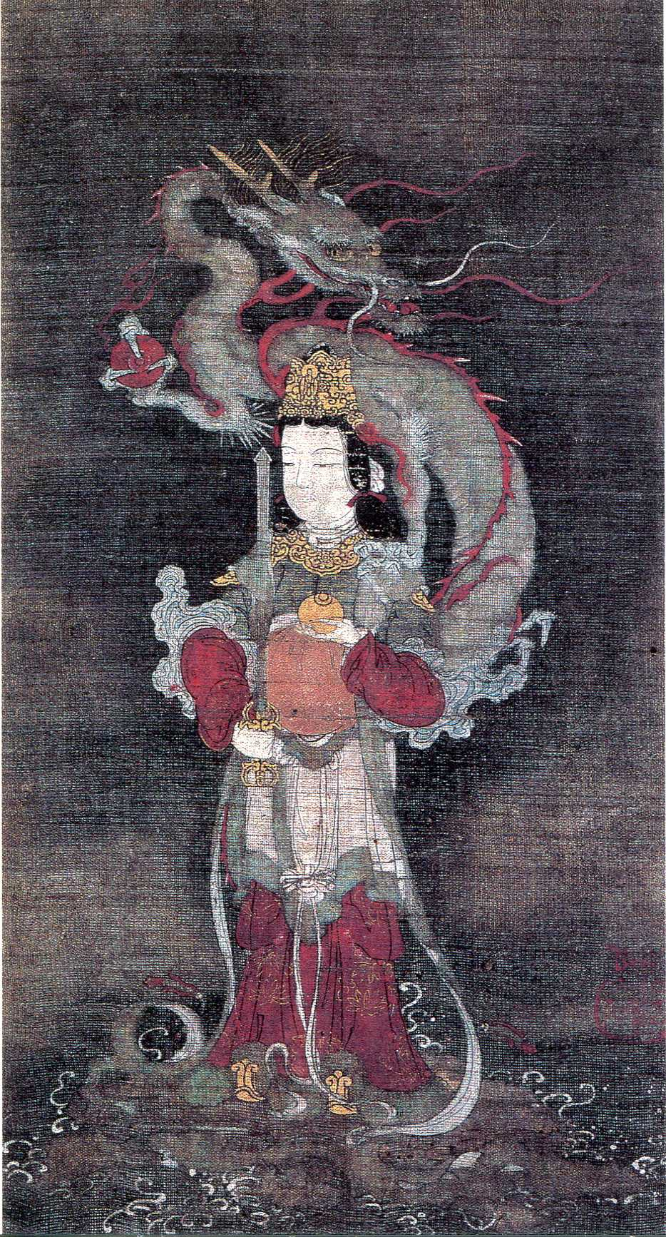 The painting of Zennyo Ryuo as a Buddhism deity by Hasegawa Touhaku. Work in Azuchi momoyama era.